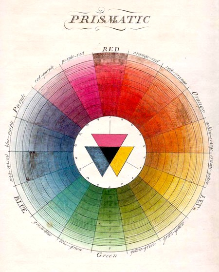 Harris’s Shaded Colour Wheel